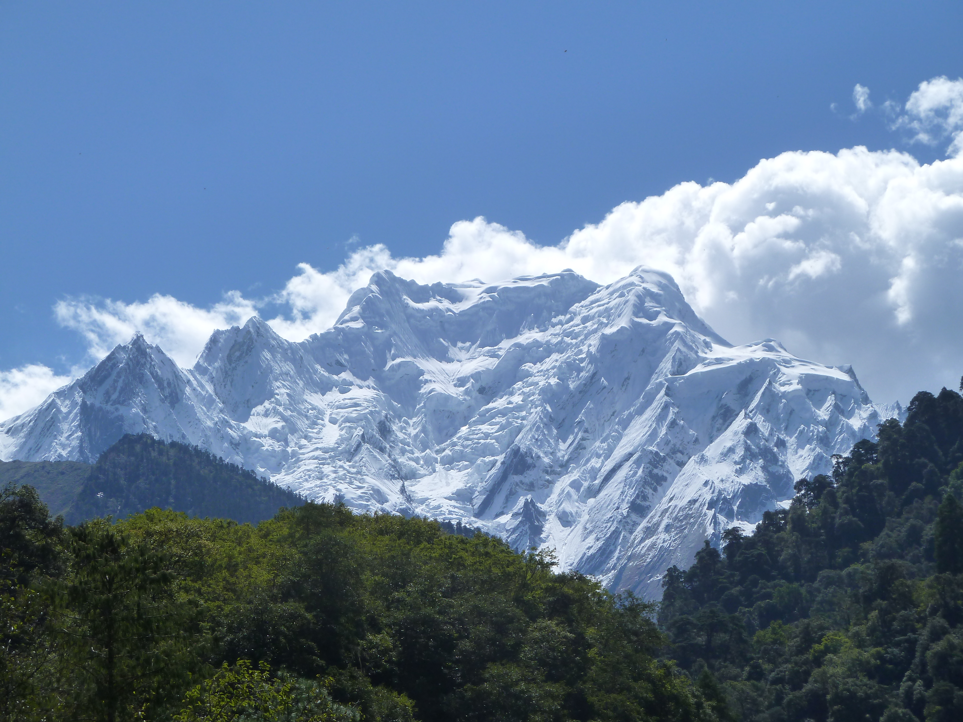 Photo taken on Sichuan-Tibet-Highway, looking southward.